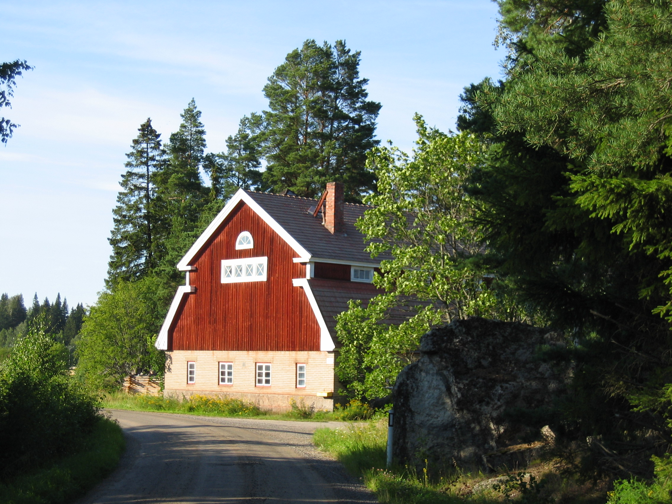 View from the Miiaistentie road in the village of Vähä-Vallunen, Lemu, Finland